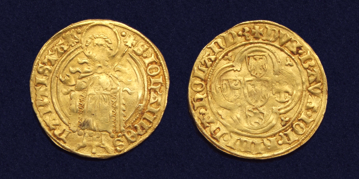 Holland, gold florin or 'Beiersgulden' of John of Bavaria, struck 1421-1422. Obverse: St. John the Baptist, standing +S.IOHANNES BABTISTA and lion. Reverse: Coats of Arms and cross within quatrefoil +DVX.BAVA.IOH.FILI.HA.HOLAND.Z.